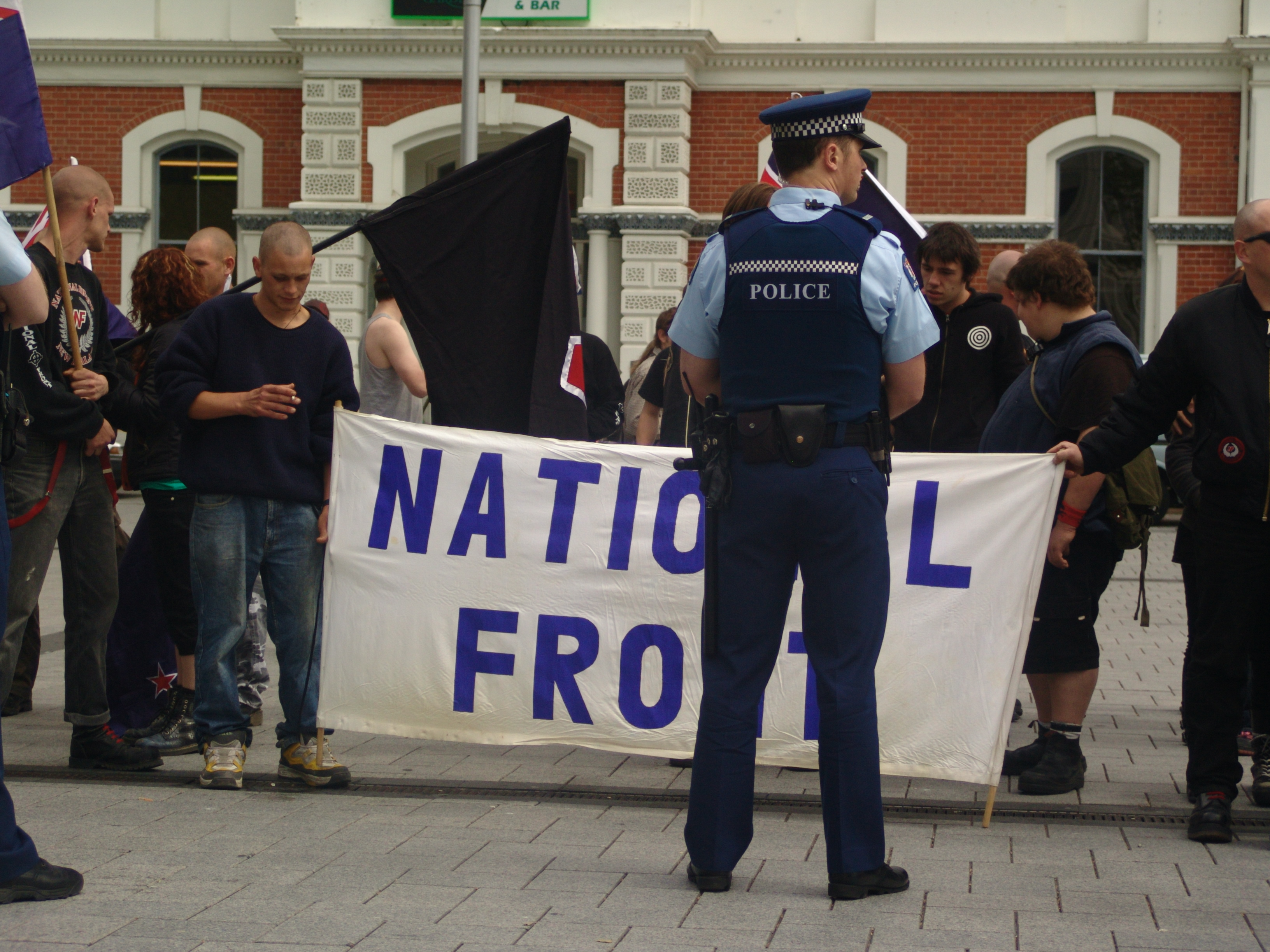 Counter-Protest against the Terrorism Suppression Act in Christchurch by the National Front